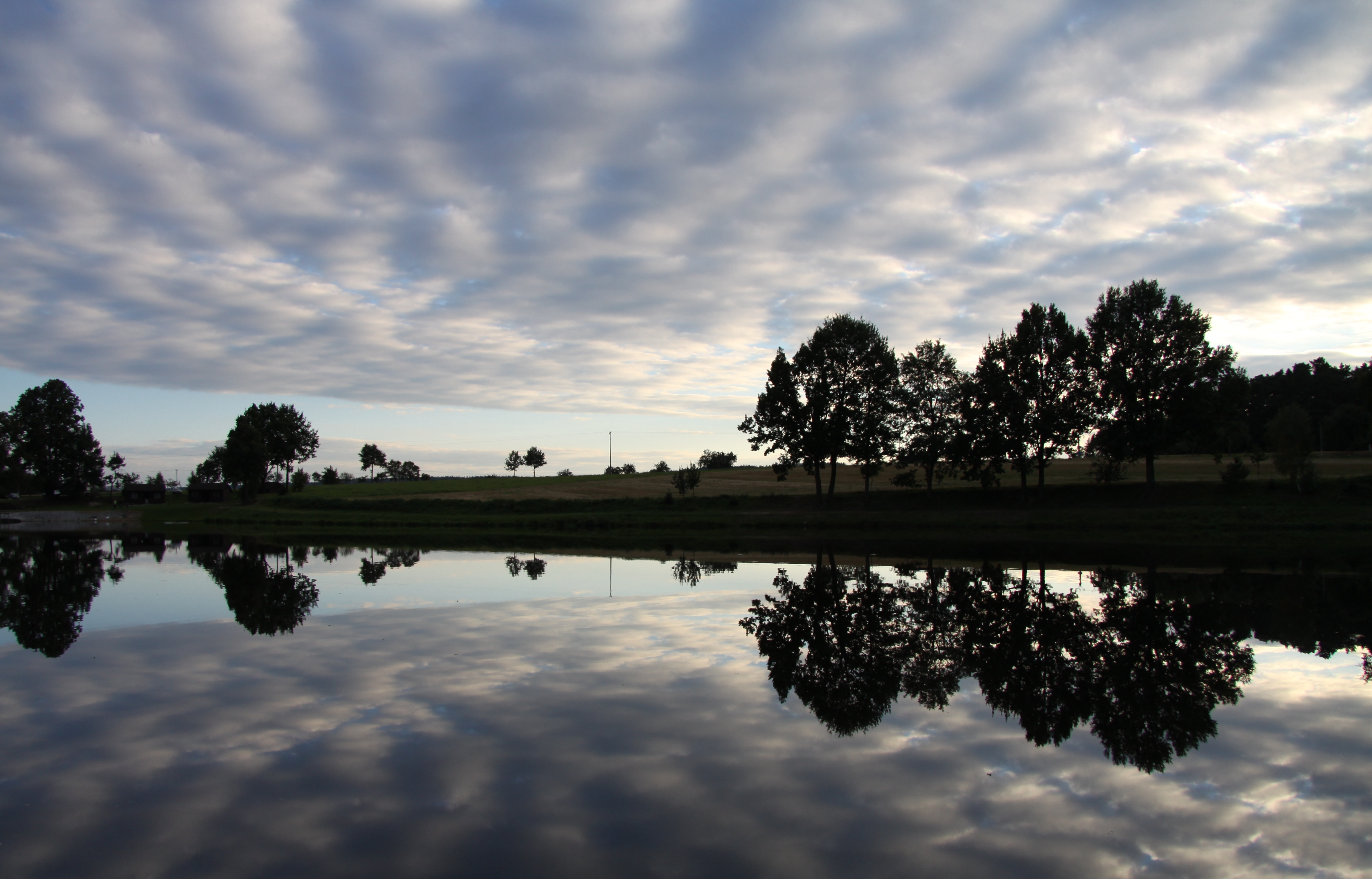 Váša pond on Milevský stream northern from Milevsko town, Písek District, Czech Republic